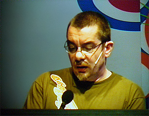 Description = Neville Brody, Font Shop Converence, Berlin 20 May 2005